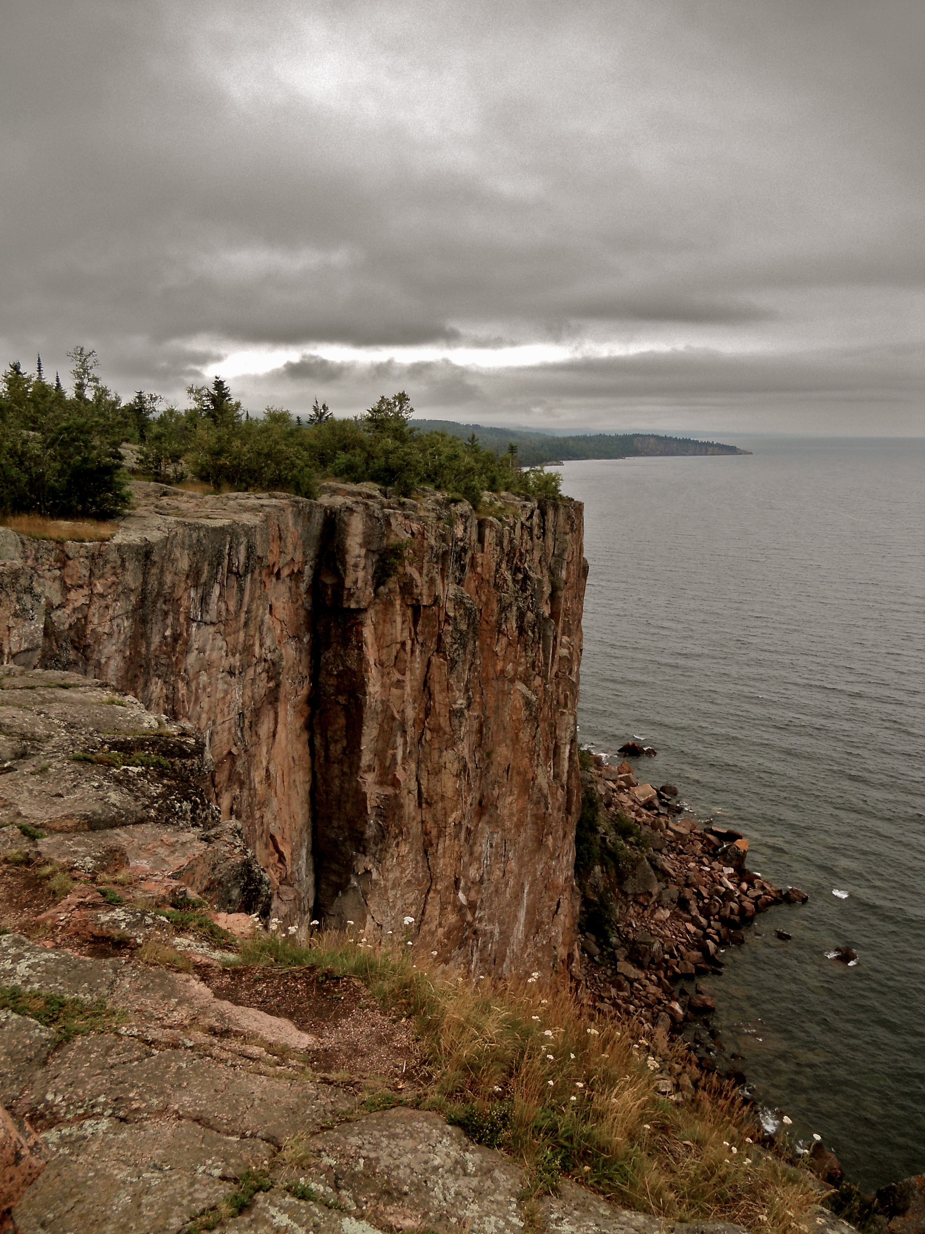 Looking north along Lake Superior's north shore from the top of Palisade Head. In the distance, Shovel Point (Tettegouche State Park) is visible.